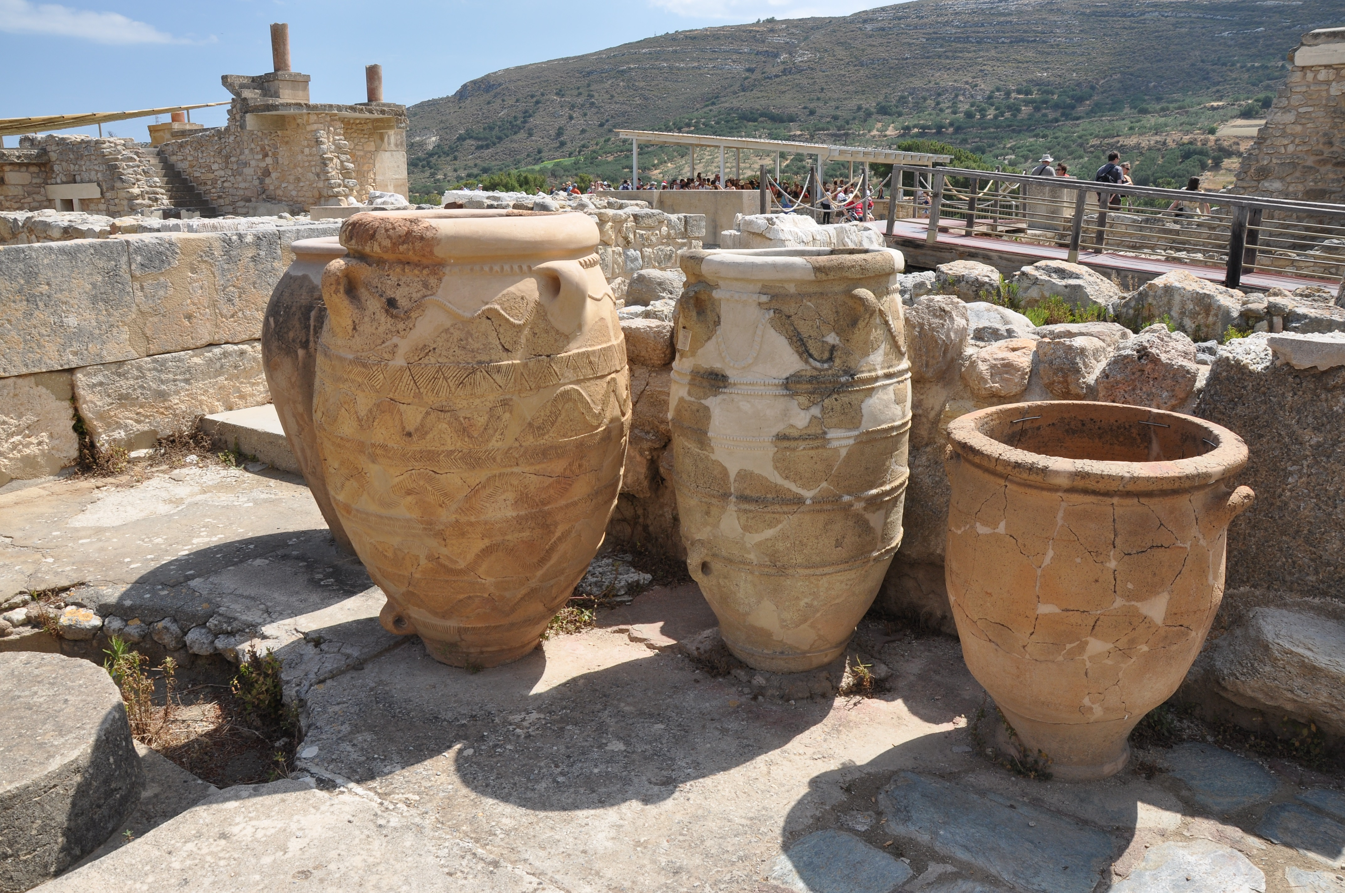 Pithoi pottery in the Knossos, the palace of king Minos at Crete in Greece.